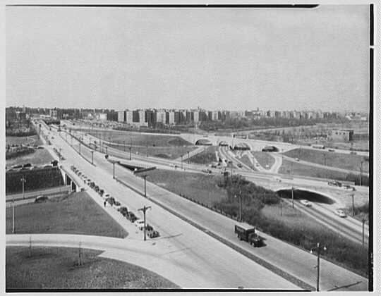 Kew Gardens Parkway junction. Interchange from elevation II.